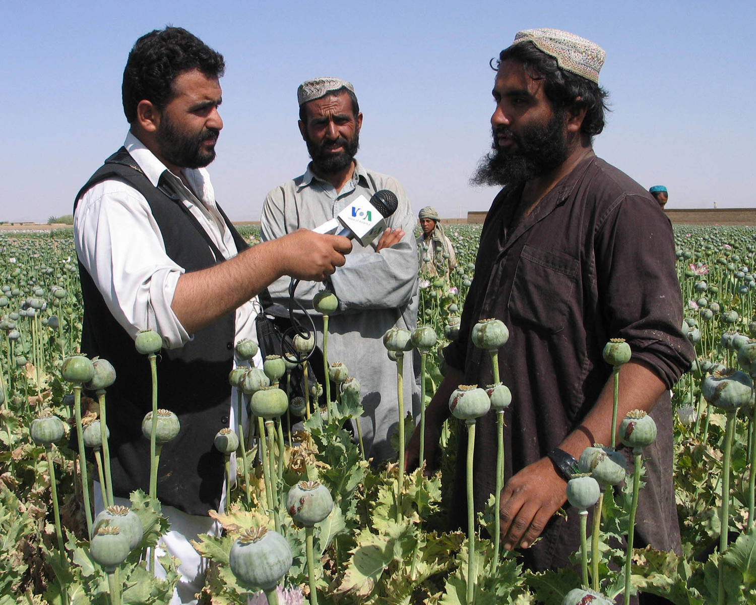 VOA reporter interviewing Afghan poppy cultivators.